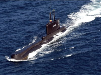 Shiri class submarine of the Navy of Ecuador